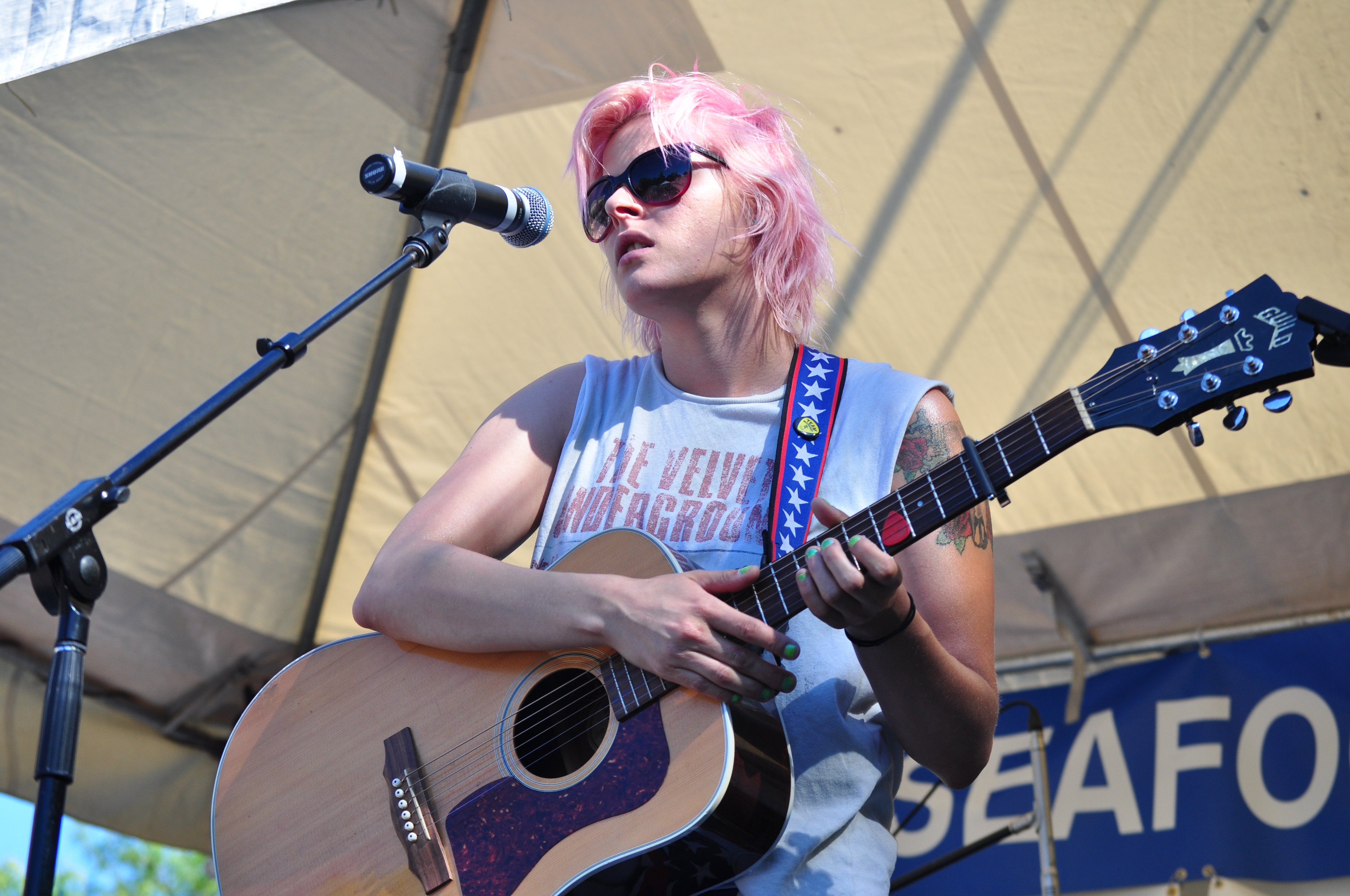 Star Anna performing at Ballard Seafood Fest 2013, Ballard, Seattle, Washington.